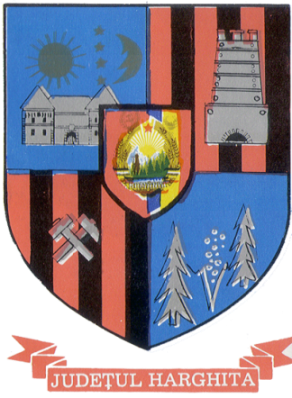 Communist coat of arms of Harghita County, Socialist Republic of Romania.